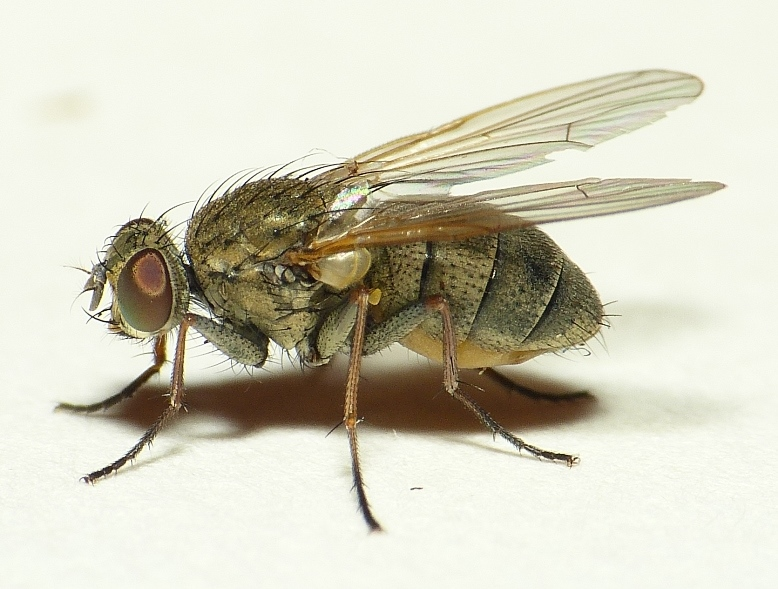 Lispe pygmaea, location: The Netherlands - Wageningen - Plasserwaard